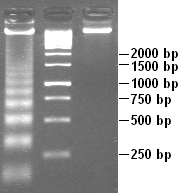 Apoptotic DNA laddering visualised in an agarose gel by ethidium bromide staining. DNA was extracted from the rat hepatoma cell line H4IIE. Left lane: Cells were treated with 1 mM of the apoptosis-inducing substance paraquat for 24 h. Middle lane: 1 kb Marker (GeneRuler, Fermentas). Right lane: DNA from untreated cells (control).